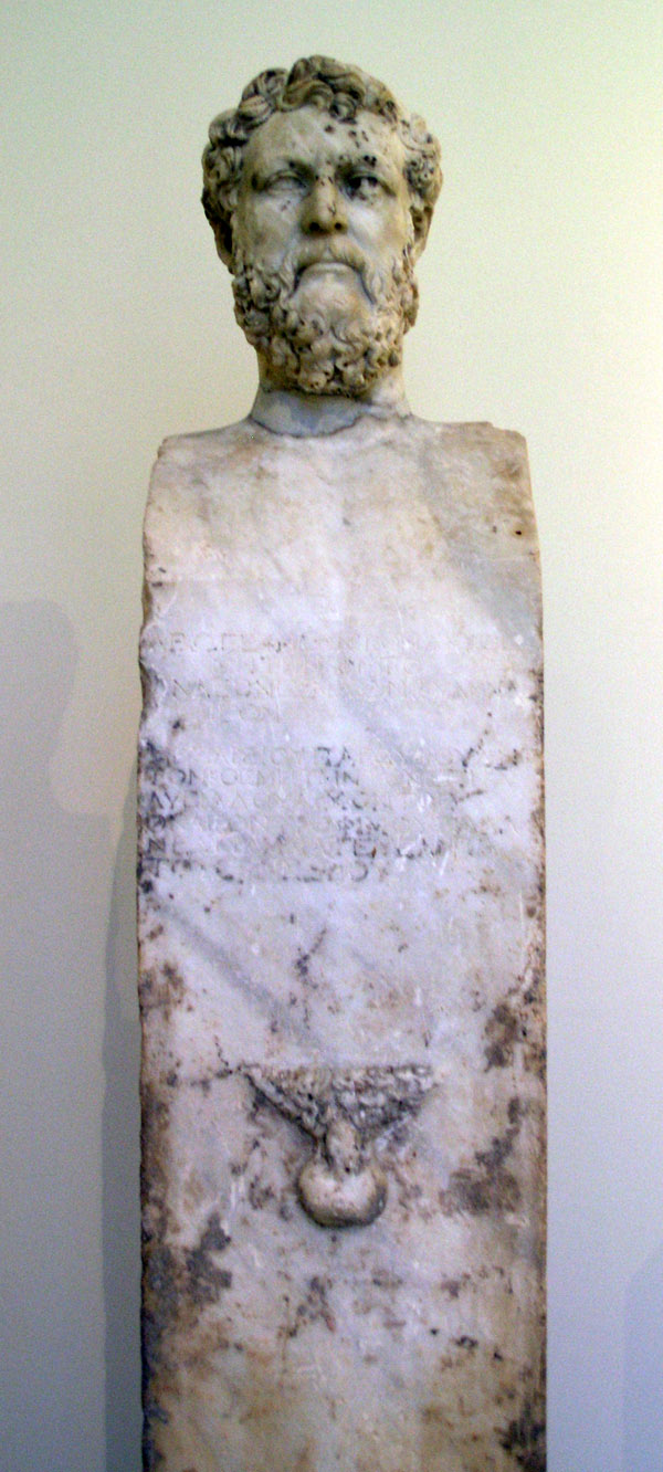 Hermaic portrait of the kosmetes Onasos, son of Trophimos, of Pallene. Pentelic marble, Hadrianic style, set in the archonship of Tib. Claudius Lysiades (ca. 129–138 AD). From Athens.